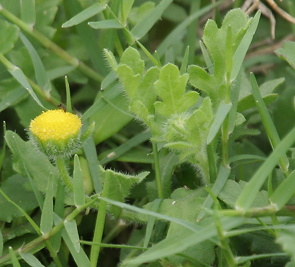 Grangea maderaspatana (Syn. Artemisia moderaspatana, Perdicium tomentosum) - Madras Carpet • Hindi: Mustaru, Bhediachim • Manipuri: লৈবুংগৌ Leibungou • Marathi: Mashipatri • Tamil: Masipathri • Malayalam: Nilampala • Telugu: మస్తరు Mastaru • Kannada: Davana • Bengali: Namuti • Gujarati: Jhinkimudi - at Pocharam lake, Andhra Pradesh, India.